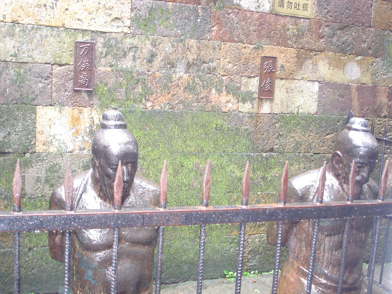 万俟卨 and 張俊 The story of Youtiao. Statue in Hangzhou, China.